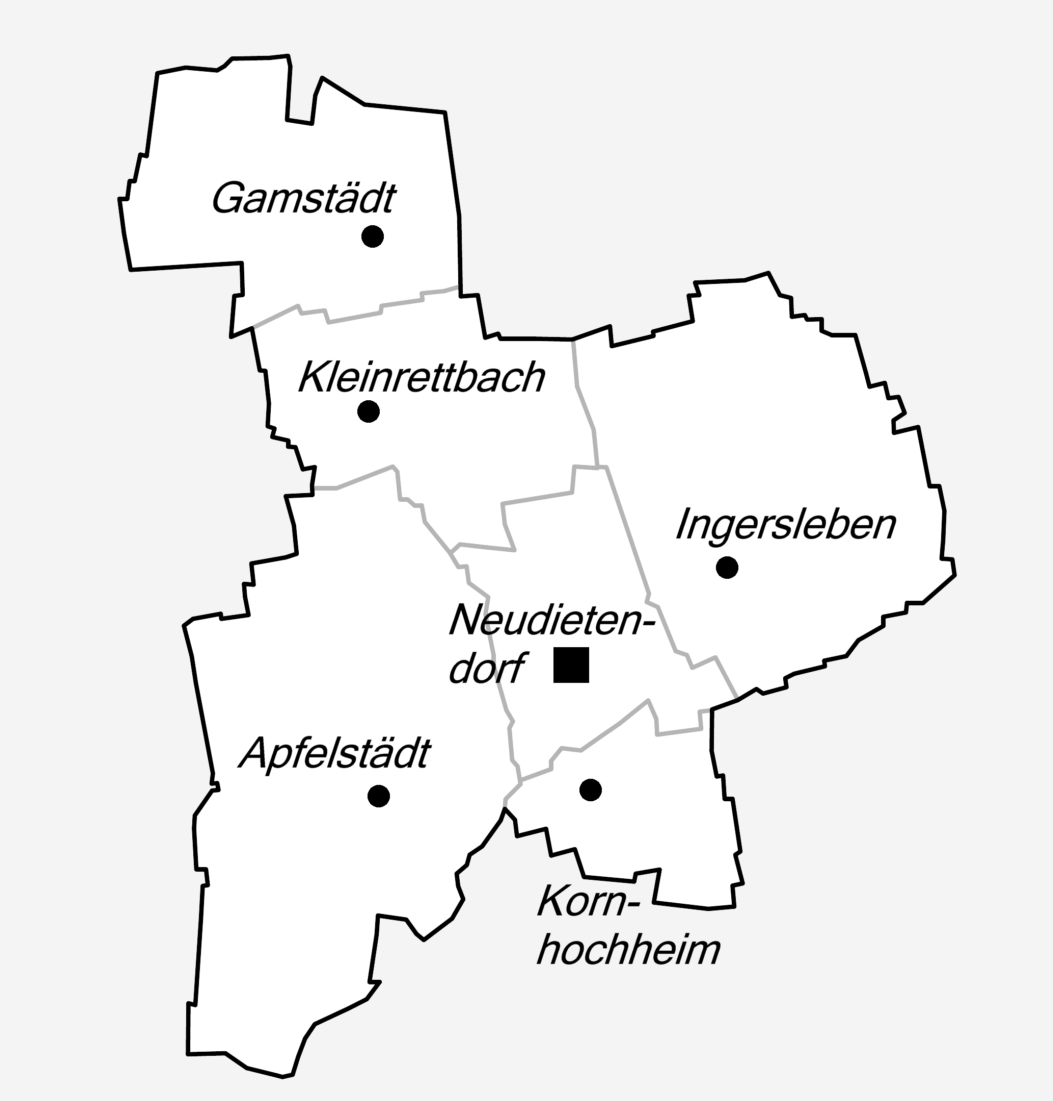 District-Maps of Nesse-Apfelstädt.